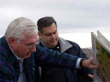 Kenny Guinn and Spencer Abraham